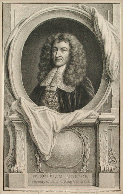 Sir William Morice (1602-1676)